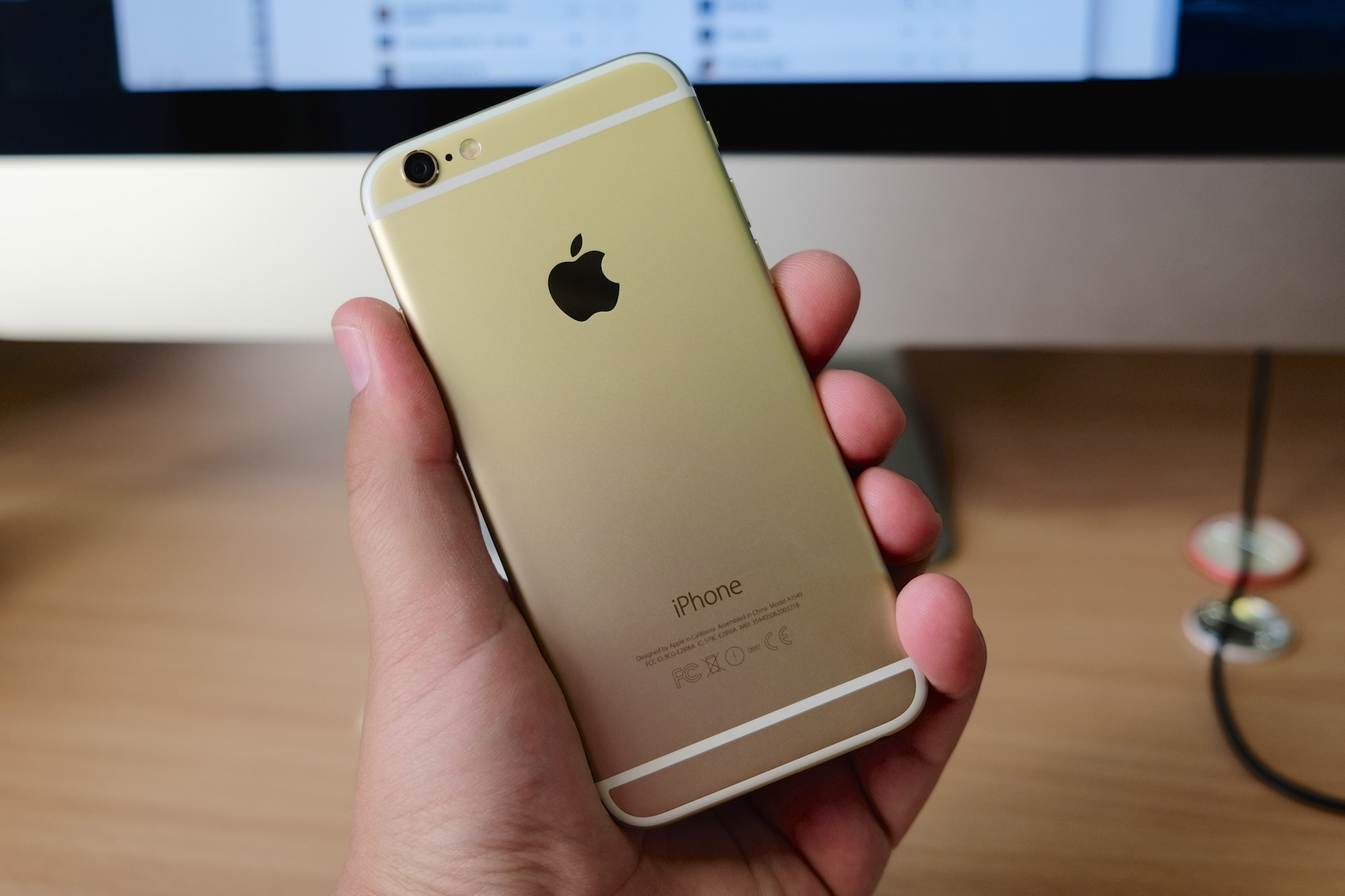 Apple iPhone 6